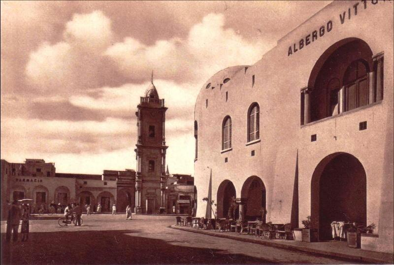 The Old Clock tower in Old Tripoli "madīna", Libya ( El sa'a Square and the former Victoria Hotel "Albergo Vittoria" appears in this picture.)